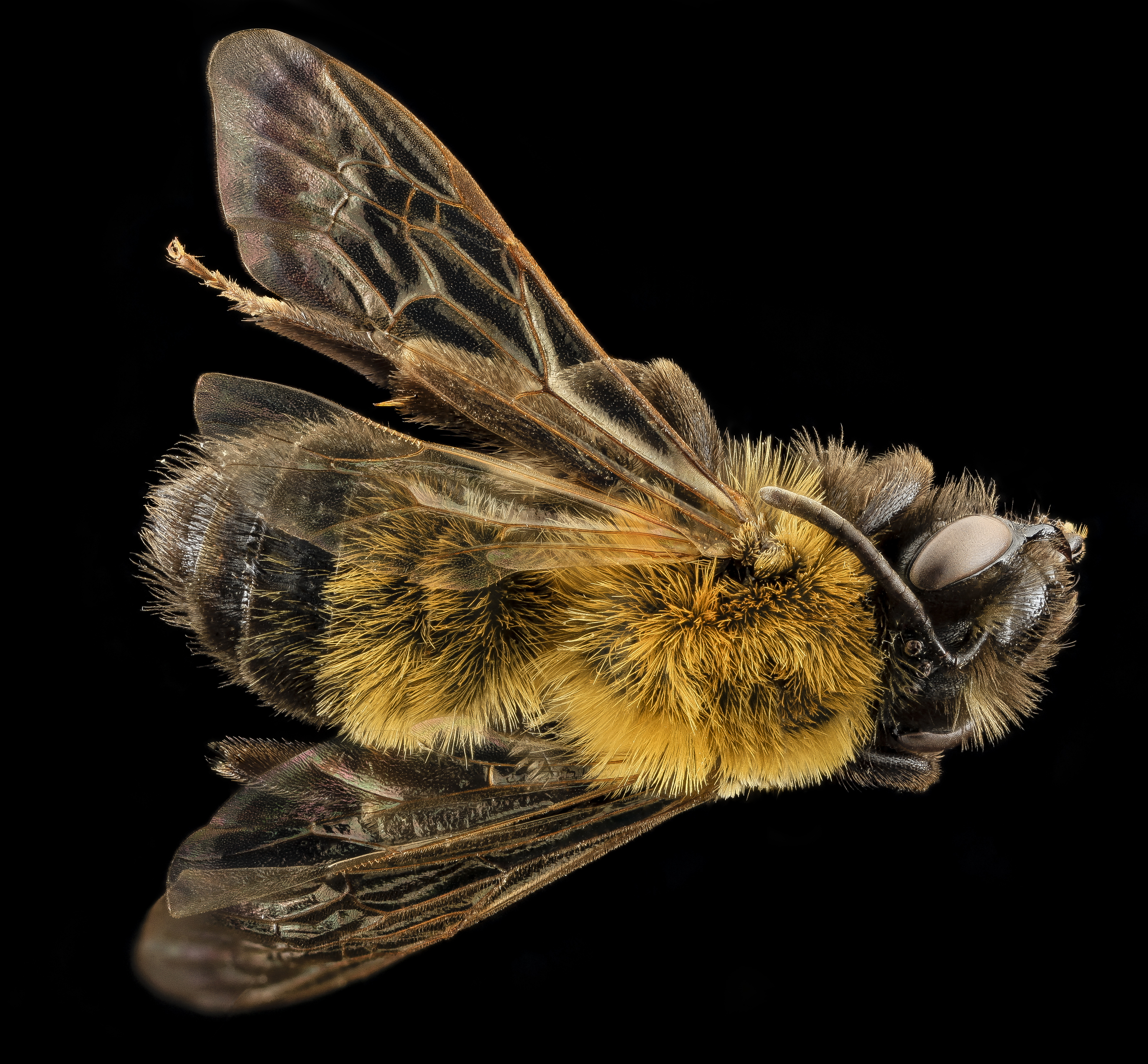 Another dark northern Andrena. This one also runs down the high elevations of the Rockies and the Appalachians. Collected in Hancock County, Maine and contibuted by Alison Dibble. Photographed by Wayne Boo Canon Mark II 5D, Zerene Stacker, 65mm Canon MP-E 1-5X macro lens, Twin Macro Flash, F5.0, ISO 100, Shutter Speed 200, link to a .pdf of our set up is located in our profile